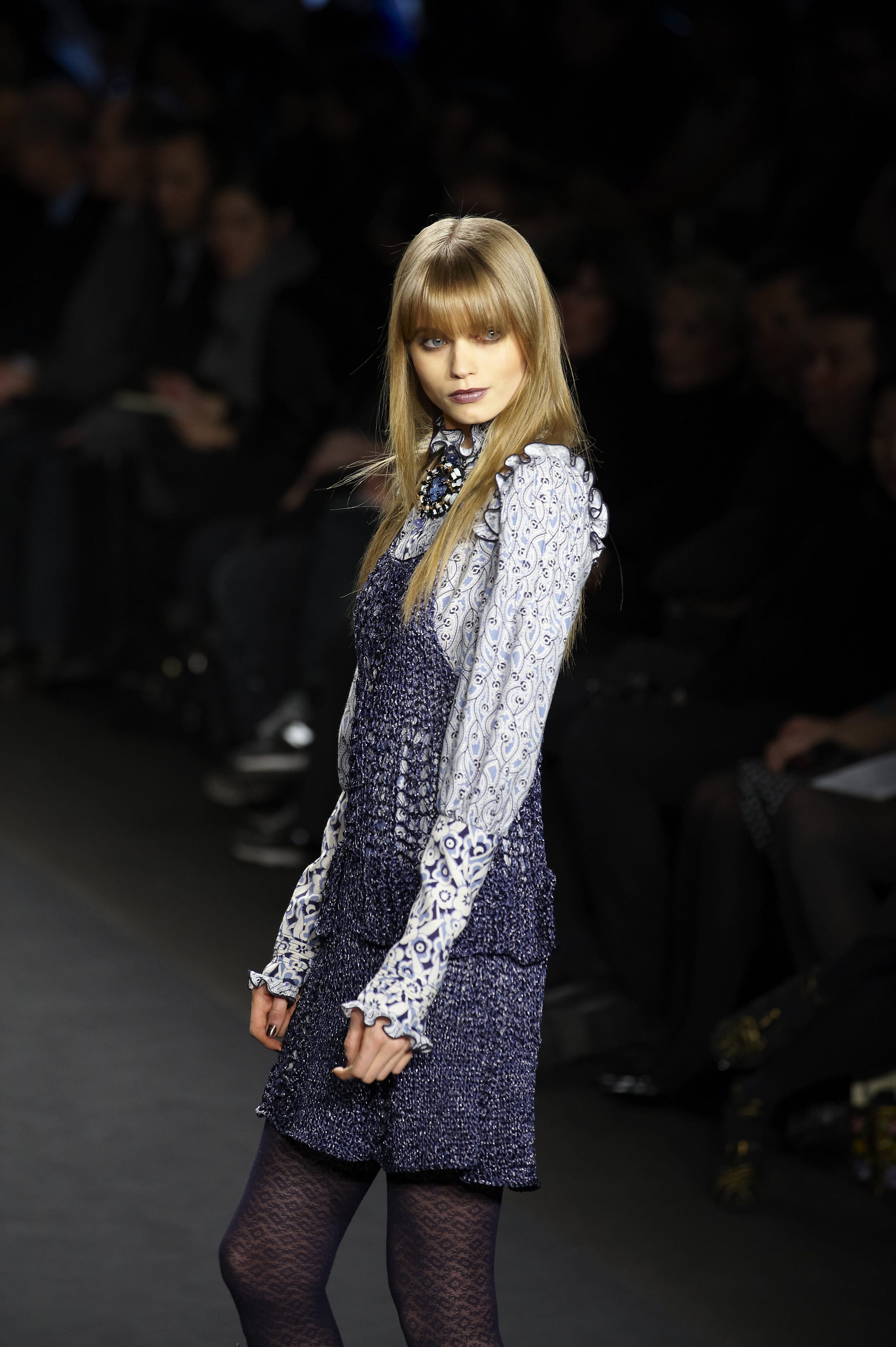 A model walks the runway at the Anna Sui Fall/Winter 2010 show at New York Fashion Week, February 2010.